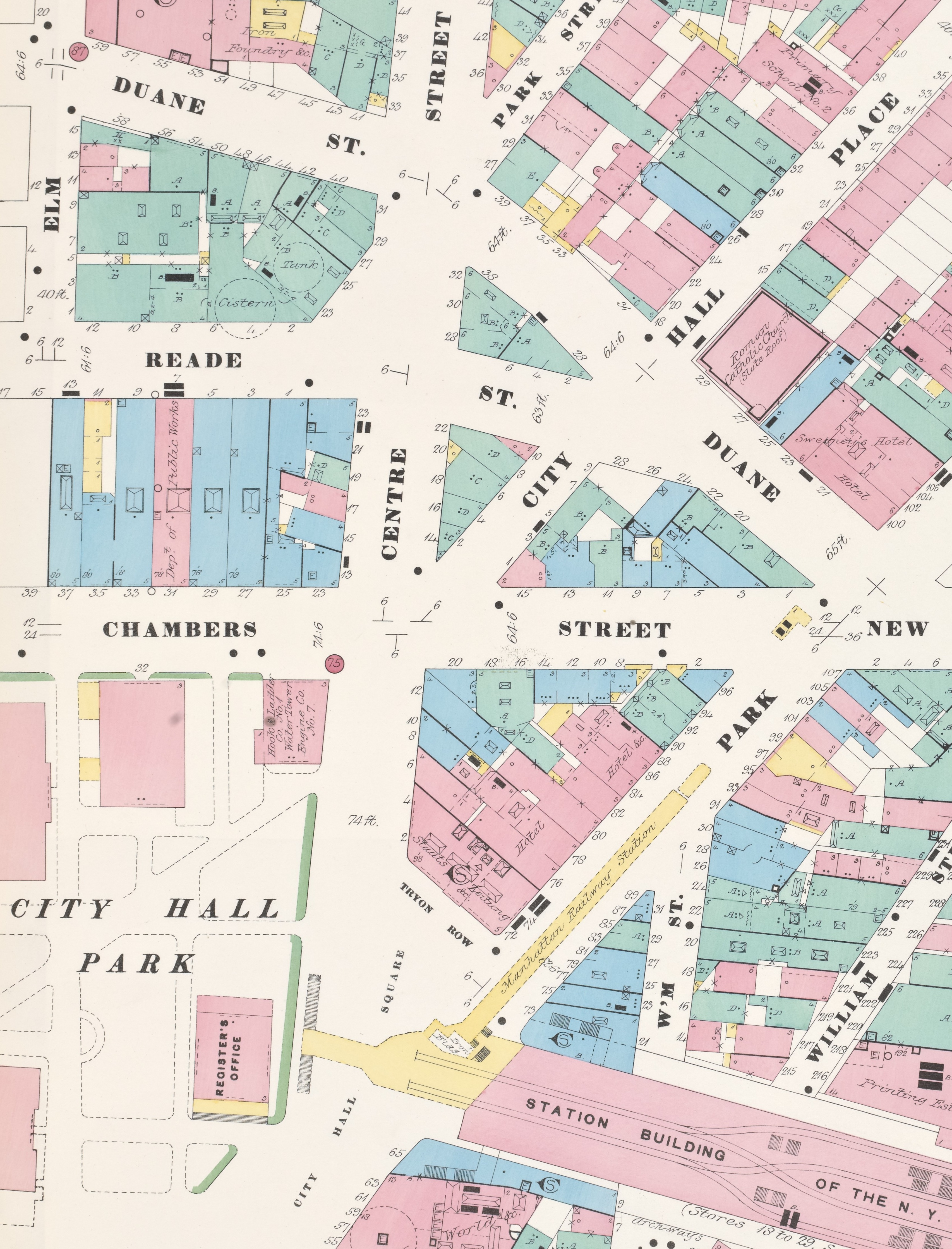 Right half of Plate 9 from: Insurance Maps of the City of New York Surveyed and Published by Sanborn–Perris Map Co., Limited. Volume 1. (New York: 1894) FOR KEY TO MAP SYMBOLS, CLICK HERE.